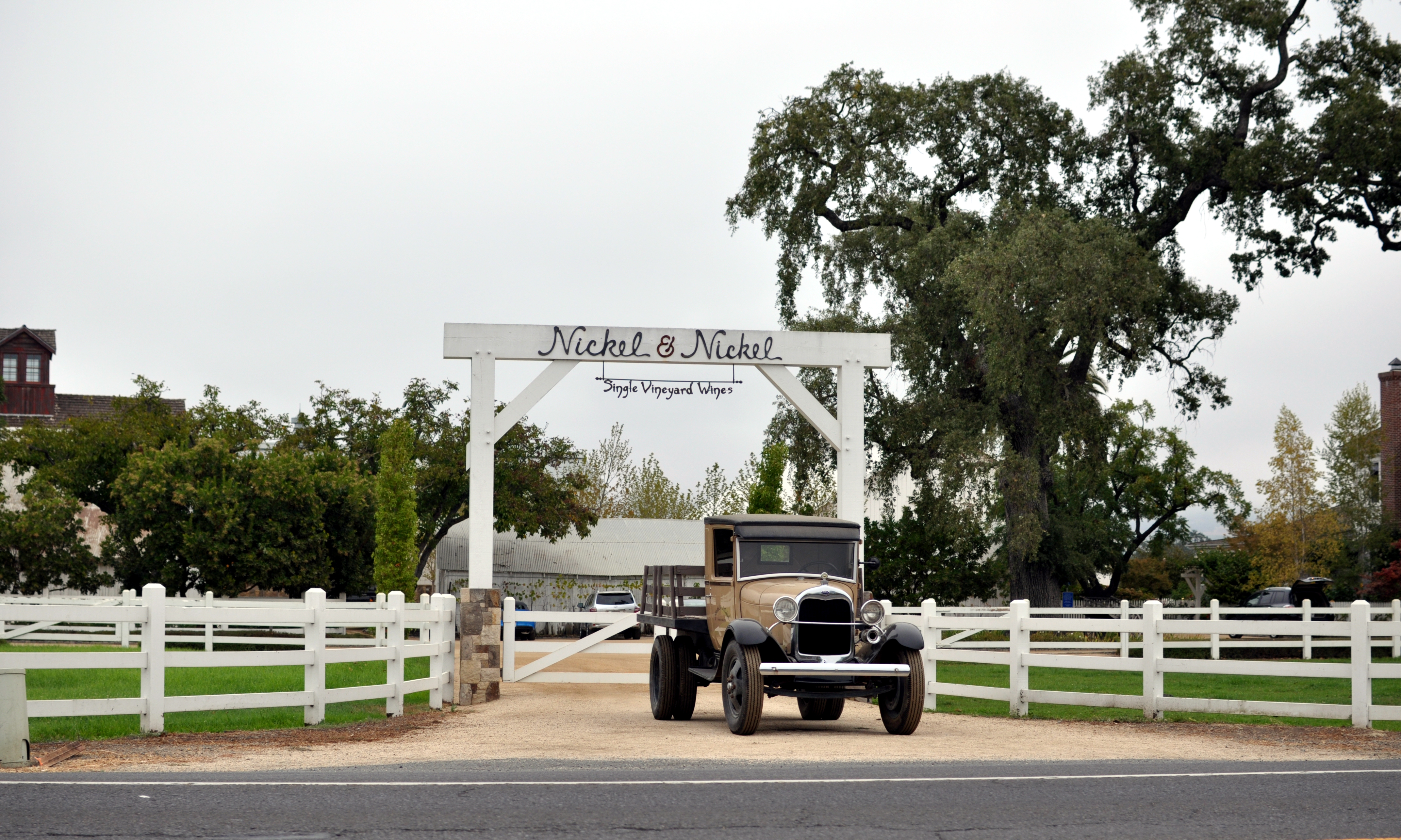 Napa_Valley_Photo_D_Ramey_Logan If used outside of Wikipedia please credit Photographer: D Ramey Logan